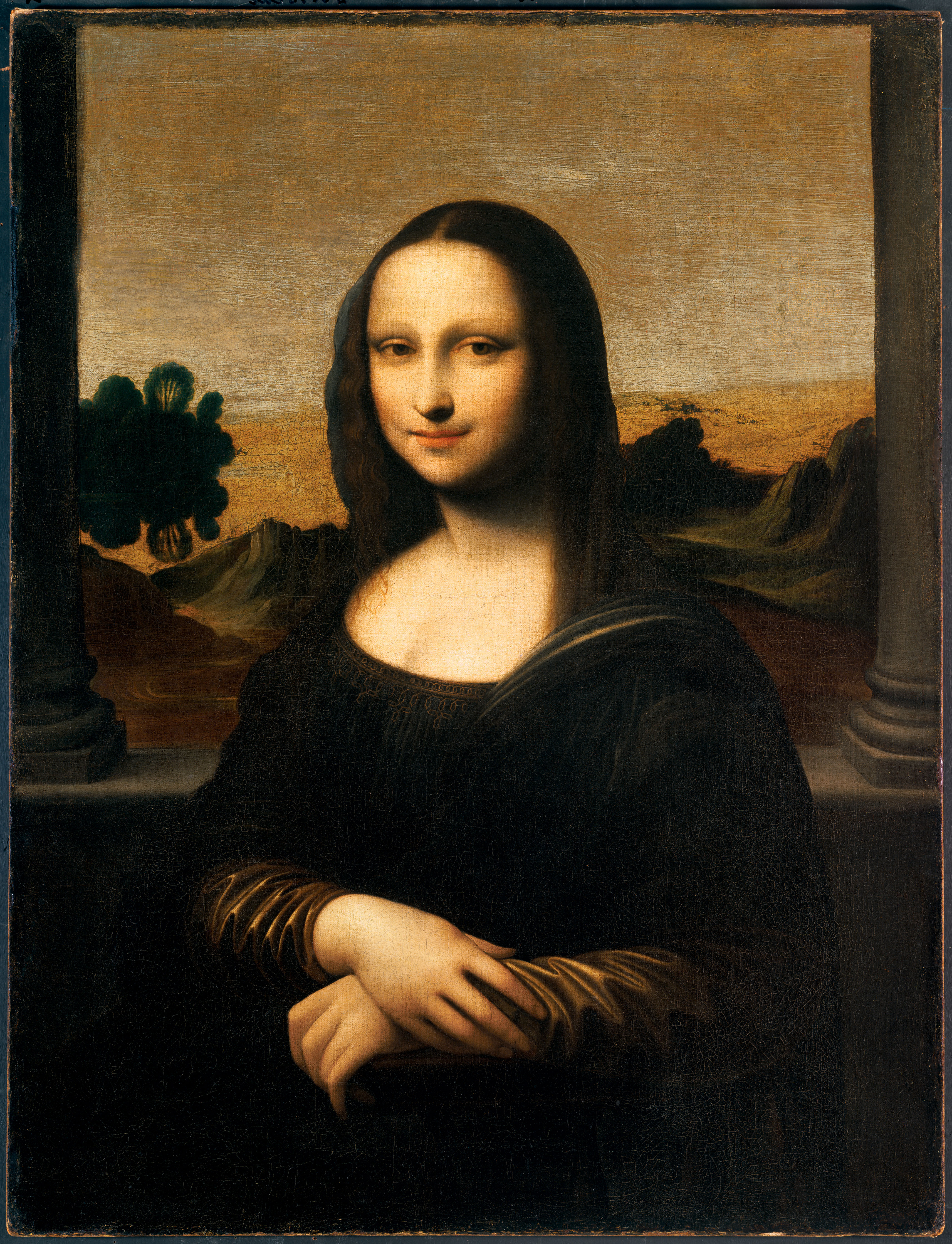 The Isleworth Mona Lisa Oil on canvas 84.5 x 64.5 cm This version of the Mona Lisa was bought in 1914 by the artist and critic Hugh Blaker, who lived in Isleworth, in west London. Unlike the Louvre’s Mona Lisa, around 1503-19, the painting is done on canvas (the original is on panel), it has columns on the sides of the picture and the landscape is very simple. Blacker reported that the picture had come from a Somerset aristocratic collection. In 1962, the painting was bought by the UK-based art collector Henry Pulitzer, who exhibited it very briefly in Phoenix, Arizona, in a commercial gallery. [1]